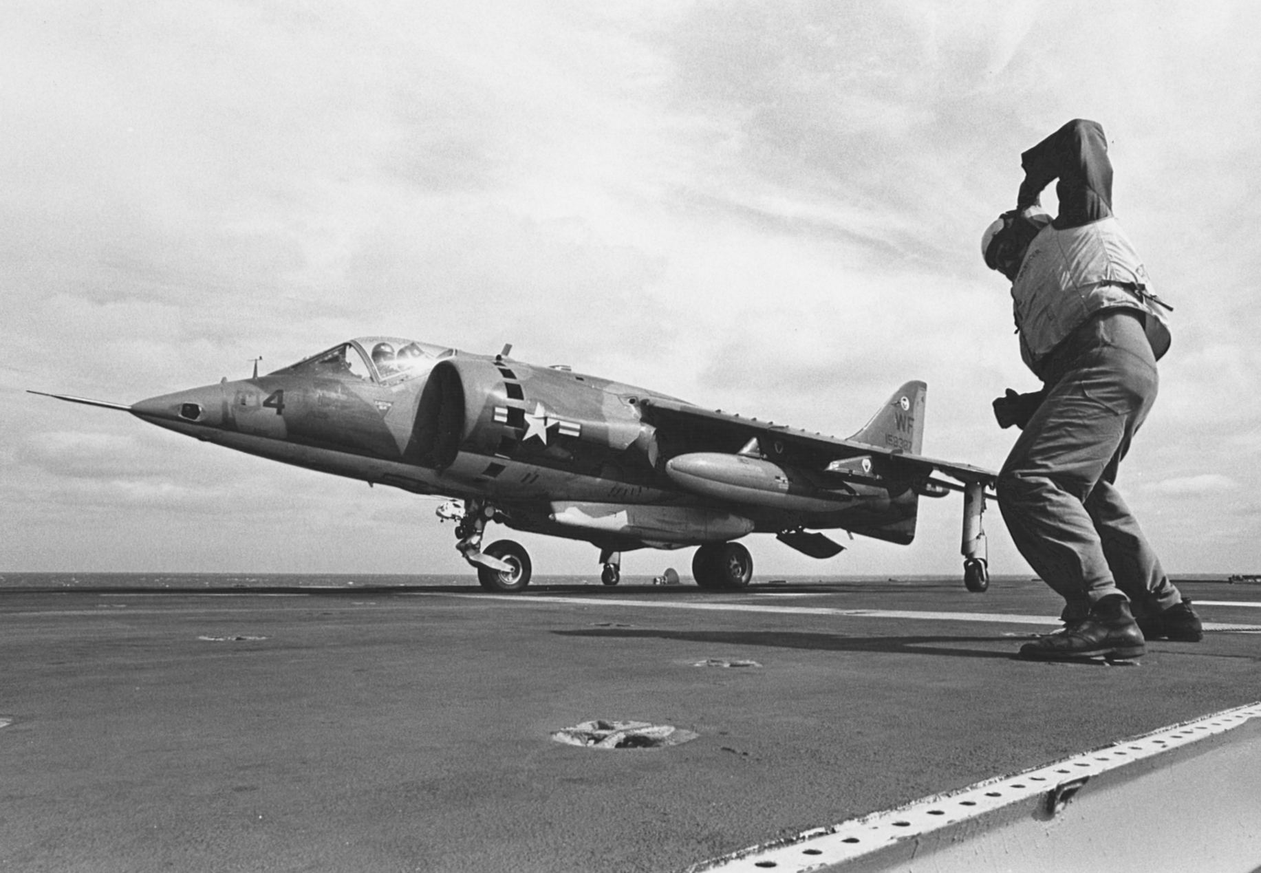 A U.S. Marine Corps Hawker Siddeley AV-8A Harrier (BuNo 158387) from Marine Attack Squadron VMA-513 is ready for launch from the flight deck of the amphibious assault ship USS Guam (LPH-9) during interim sea control ship tests, in January 1972.